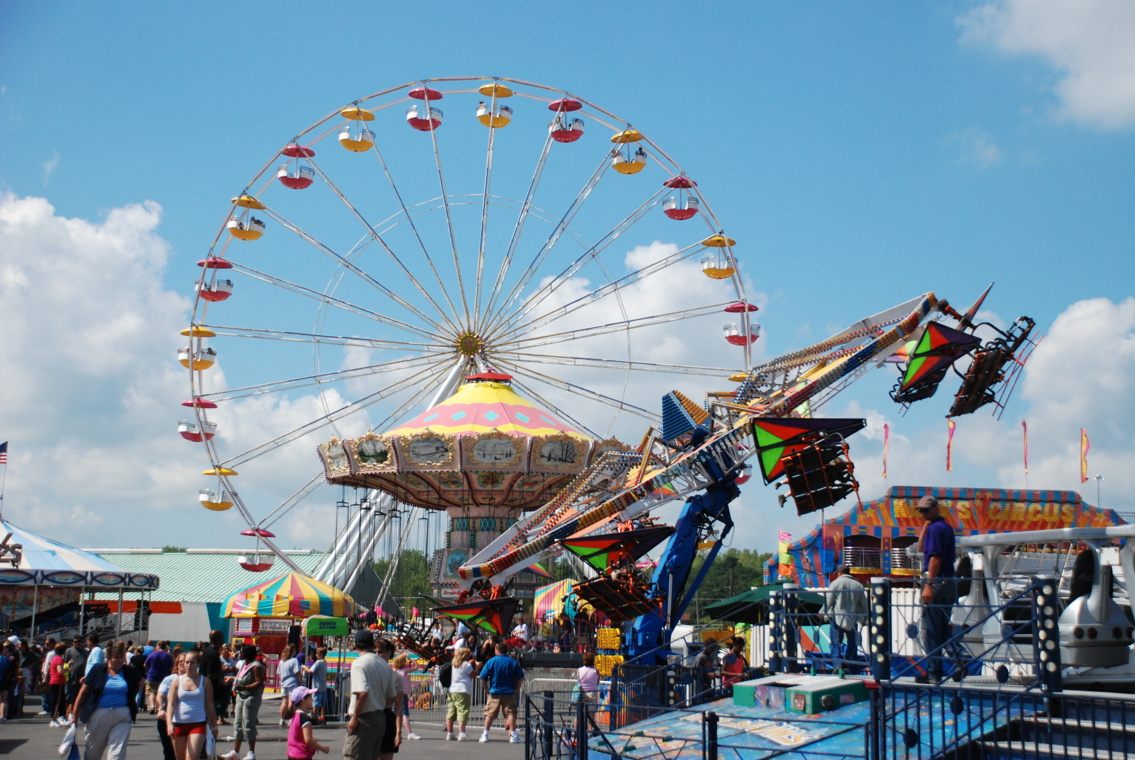 New York State Fair 2008